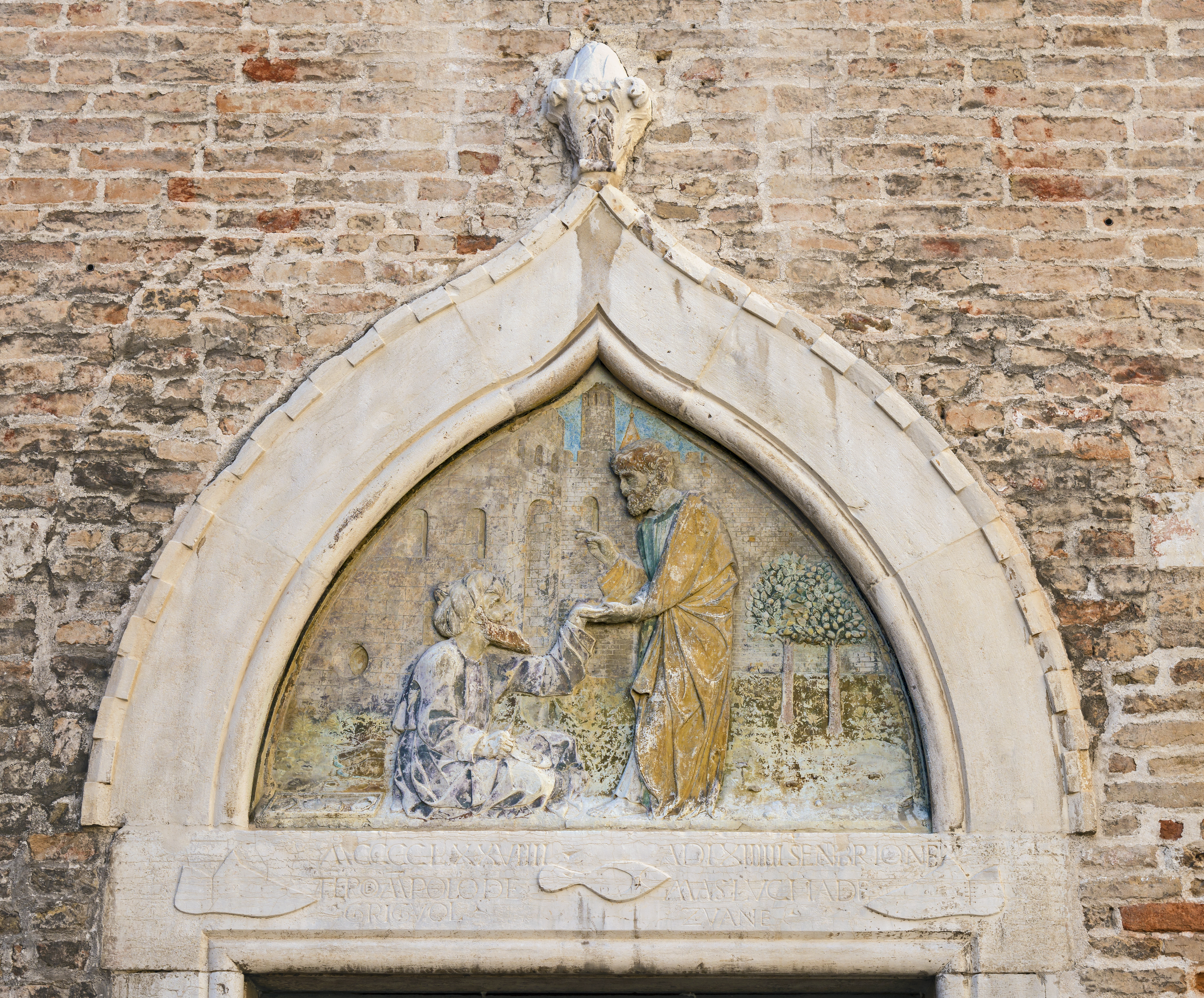 Relief of Pietro Lombardo , in 1478 on the facade of the 15th century "Scoleta dei calegheri" (Shoemakers' "little guildhall"), in Campo San Tomà square Venice.It represents St. Mark healing Saint Anianus of Alexandria (dressed in Moorish), the patron saint of the brotherhood.